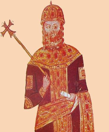 Michael VIII Palaiologos. Miniature from the manuscript of Pachymeres' Historia, 14th century. Munich, Bayerische Staatsbibliothek.